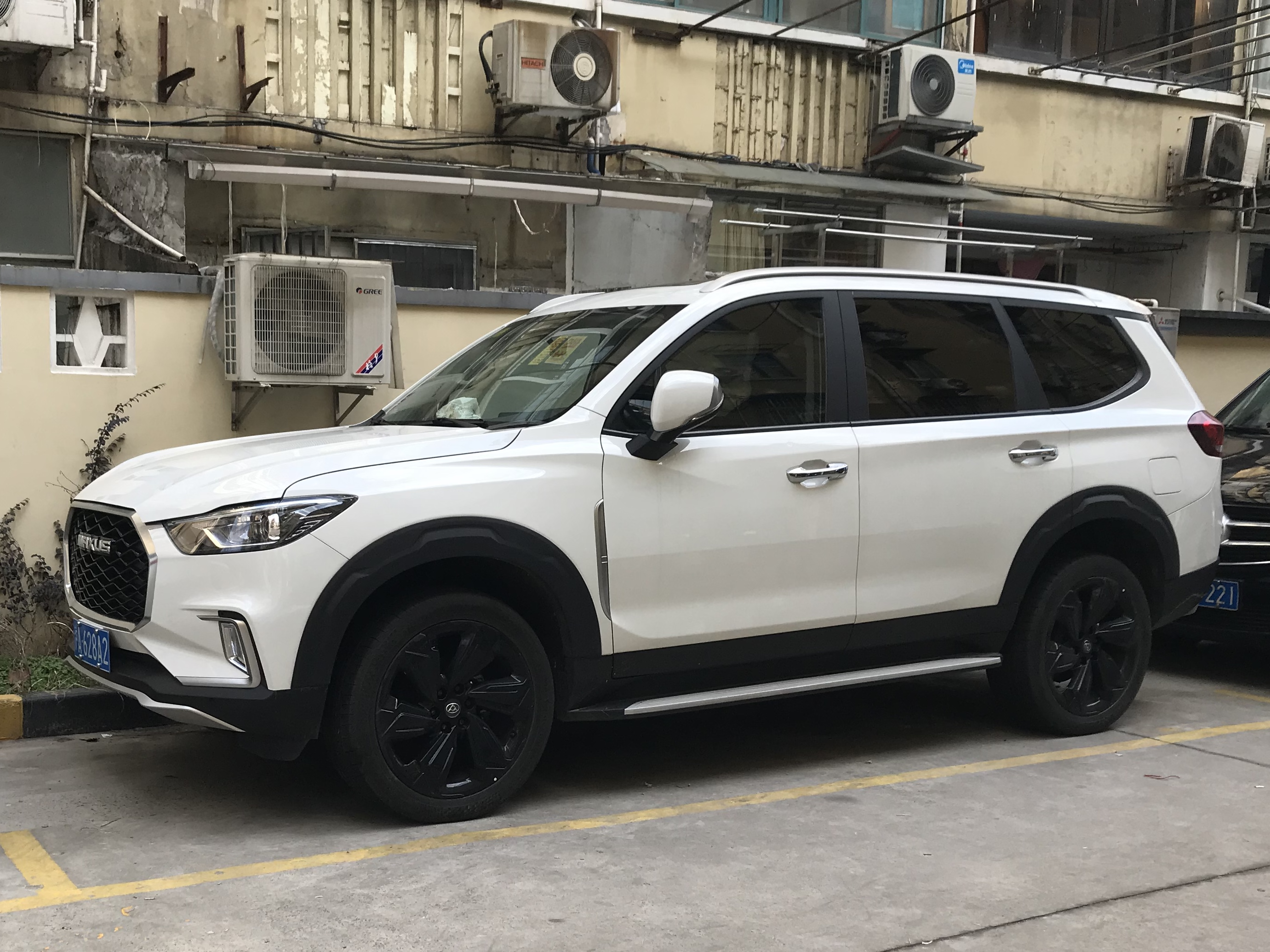 Maxus D90